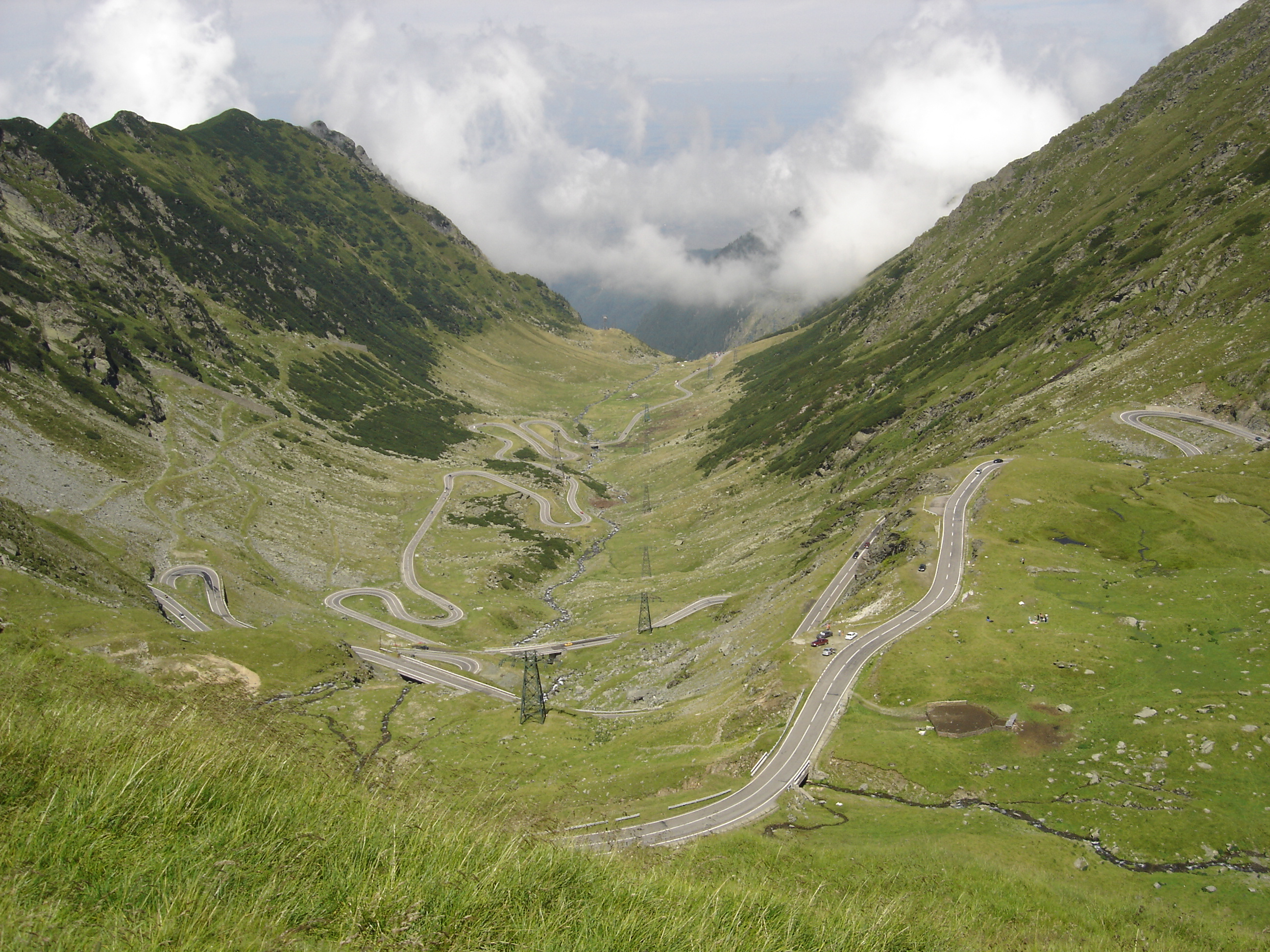 Transfăgărăşan